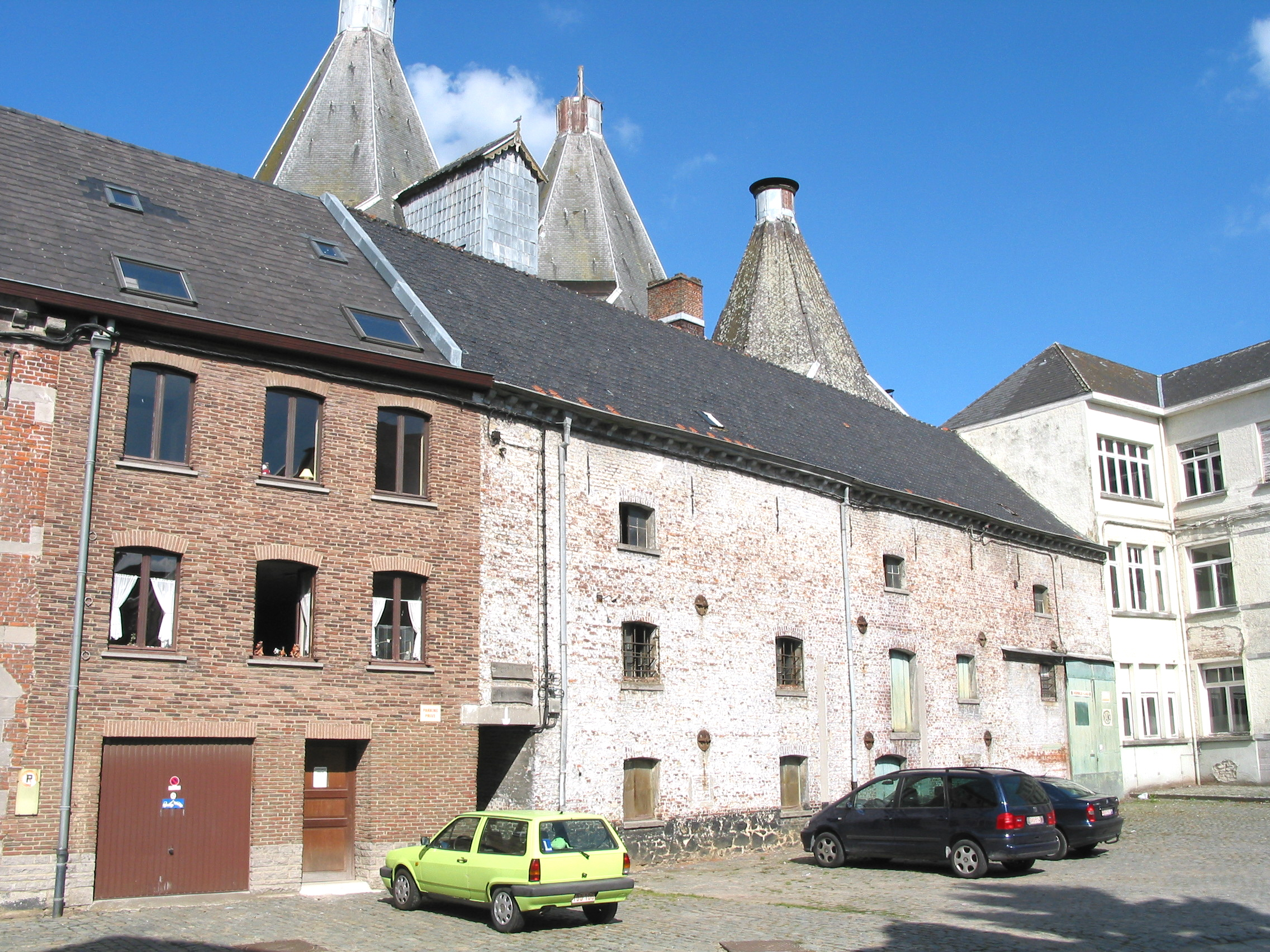 Lessines (Belgium), ancient malthouse (1880).